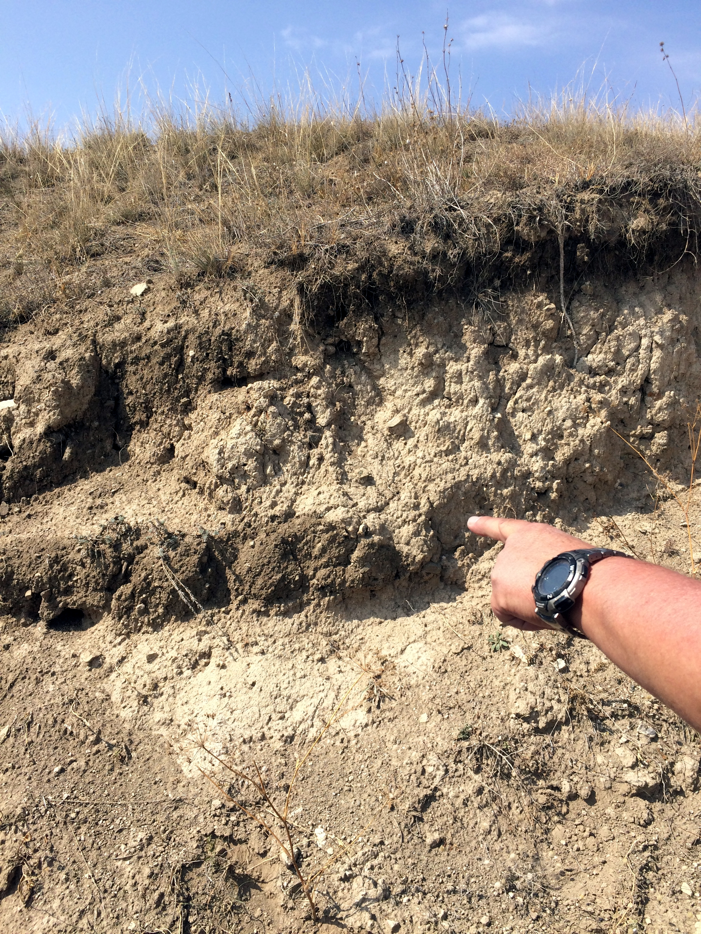 Paleosol in Armenia, Spitak